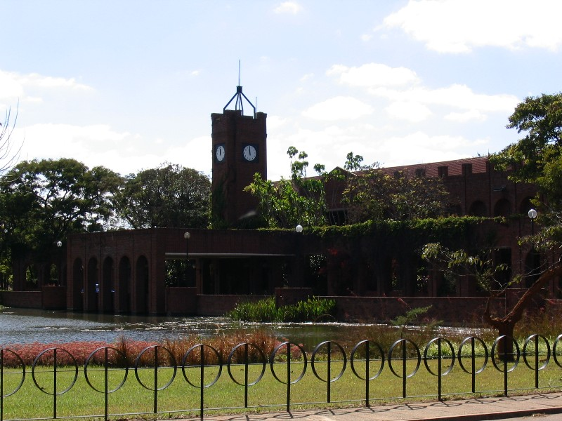 Photograph taken by Jack Curran